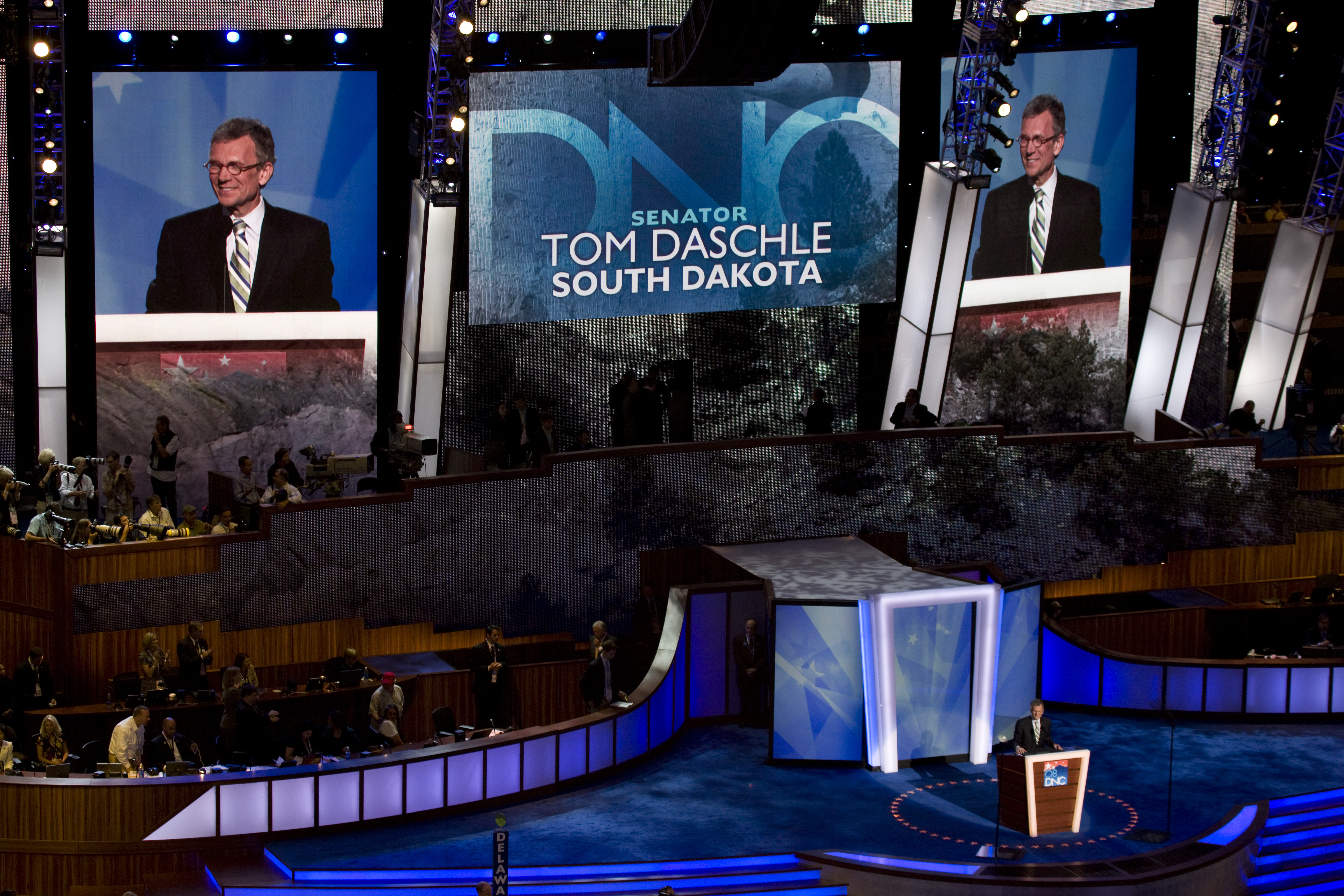 Tom Daschle speaks at the 2008 DNC